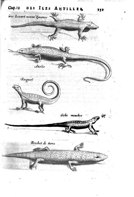 Natural history of the Antilles p151